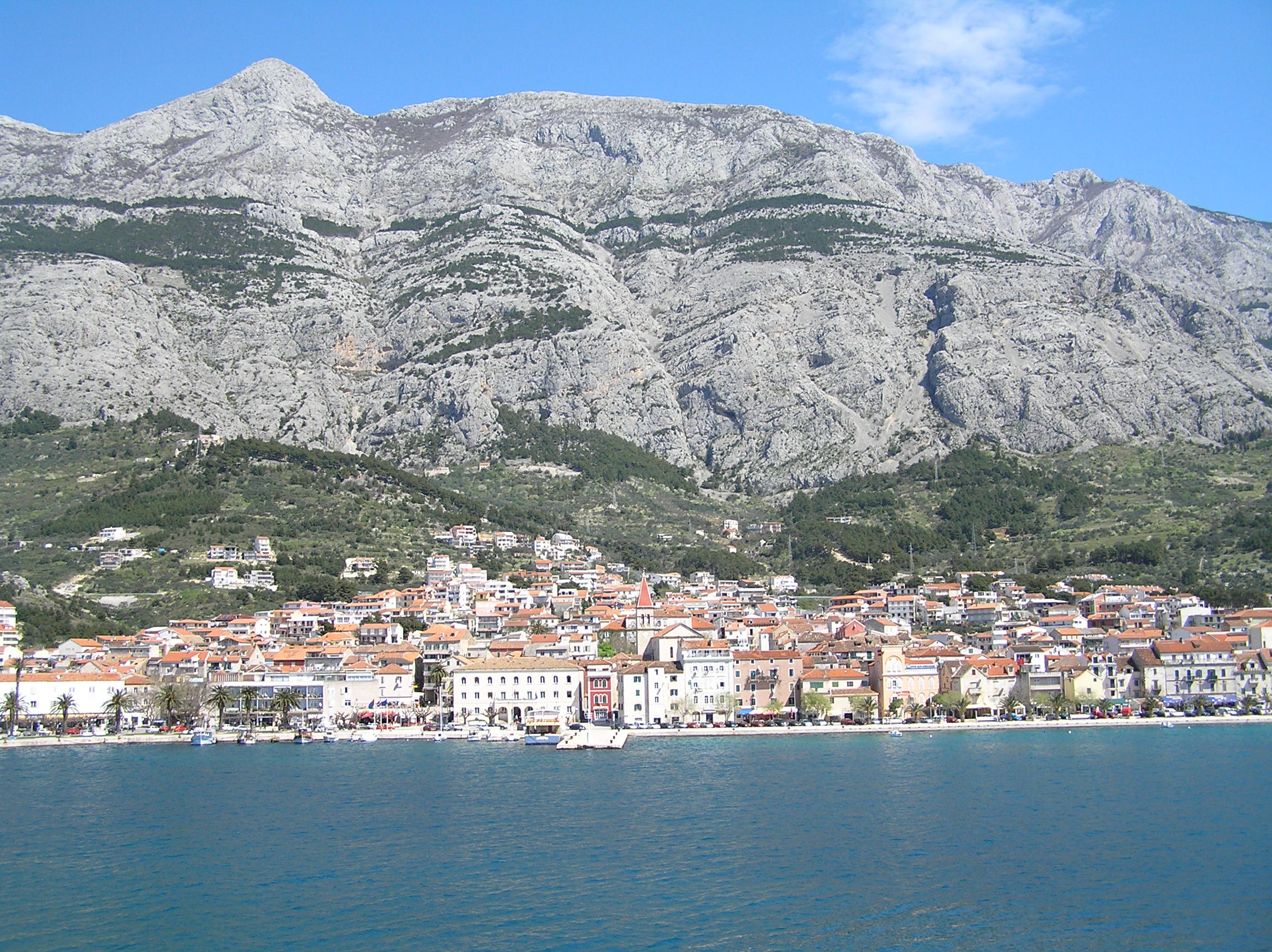 Makarska, Croatia.